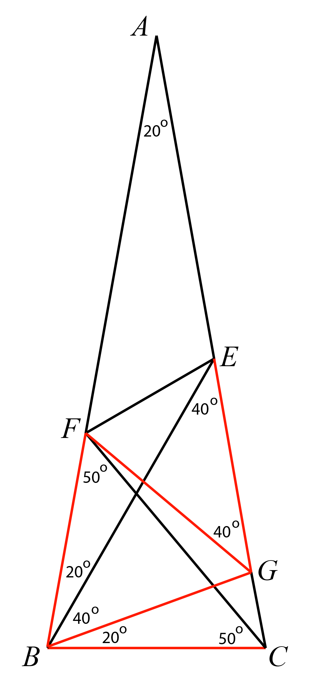 The 80-80-20 triangle problem with helping lines to aid in the solution.